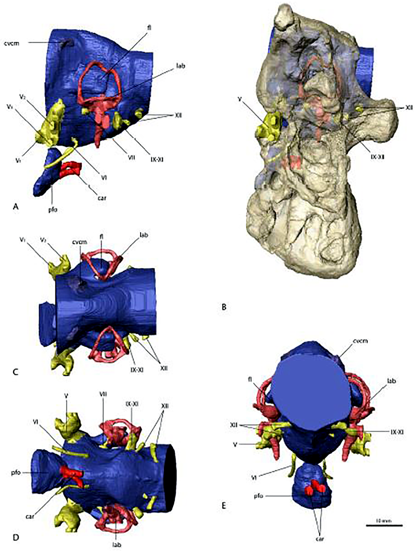 Reconstruction of Basicranial Soft Tissues of Nothronychus mckinleyi (AzMNH 2117) Cretaceous (Turonian) Moreno Hill Formation, Zuni Basin, West-Central in A, left; B, left with basicranium superimposed; C, dorsal; D, ventral; and E, anterior views. Blue represents endocranial cavity, Yellow represents cranial nerve tracts, dark red represents vascular and light red represents inner ear structures. Scale bar equals approximately 1 centimeter. After Lautenschlager et al. (2012) with permission from PlosOne.